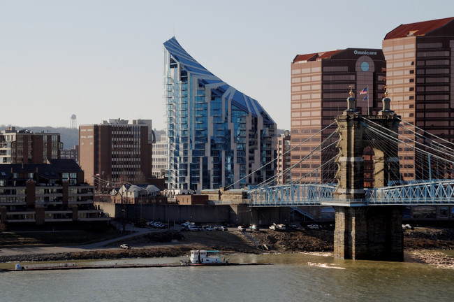 The Ascent at Roebling's Bridge, designed by Studio Daniel Libeskind, as seen from Roebling's Bridge and the Ohio River.